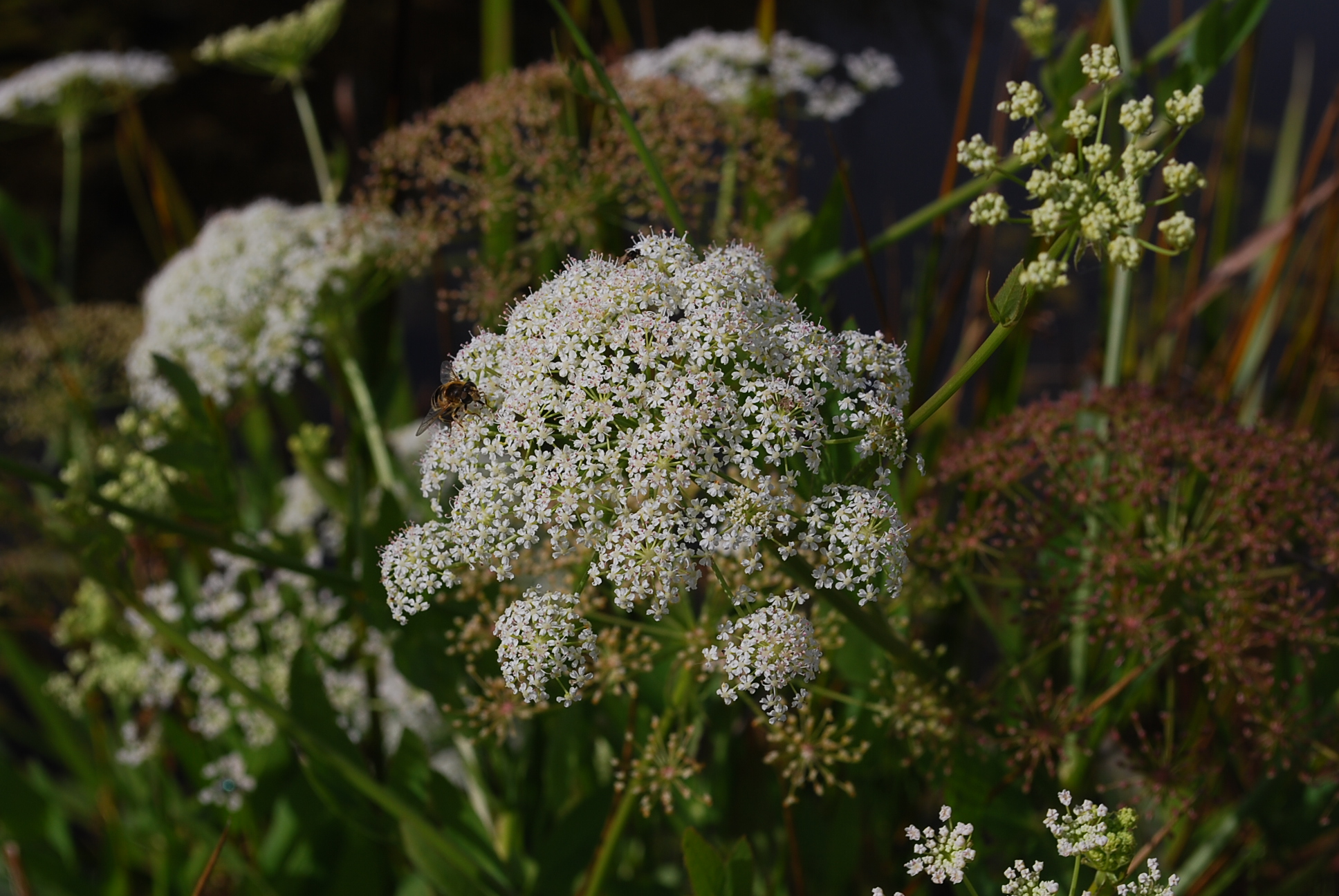 Sium latifolium, Wickhampton Marshes